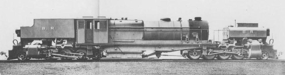 Burma Railway Company Garratt Class GA II, single locomotive built as compound version, was in service till 1942. Road number 208. Factory number 6354.